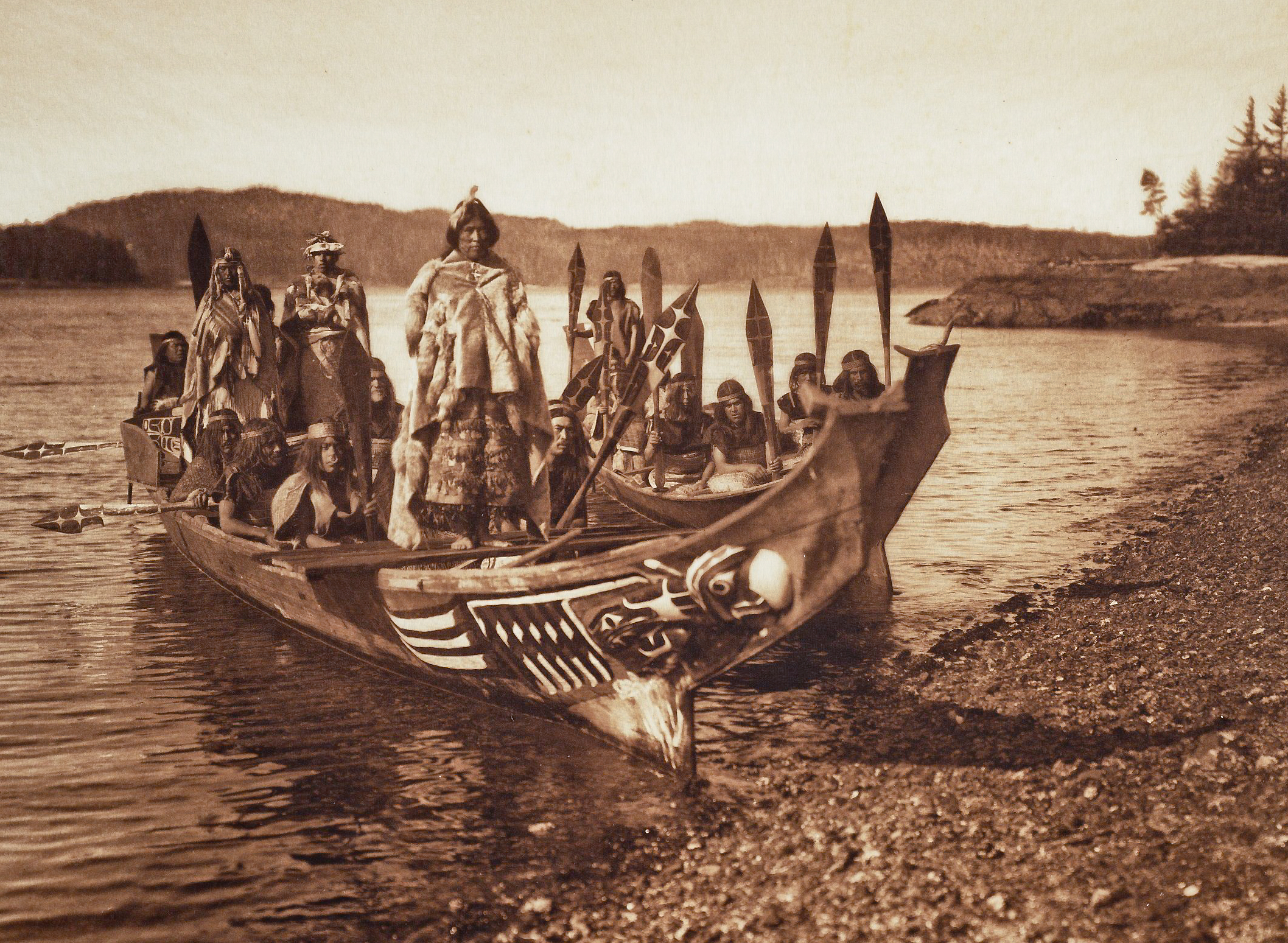 Wedding Party – Qágyuhl, Plate 344